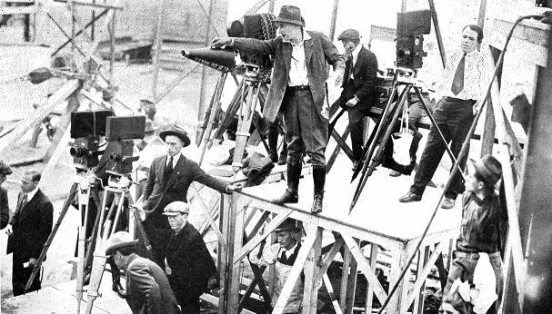 Original caption: Cecil B. de Mille directing a scene with four Pathé professional cameras and a Bell and Howell trained on the set.